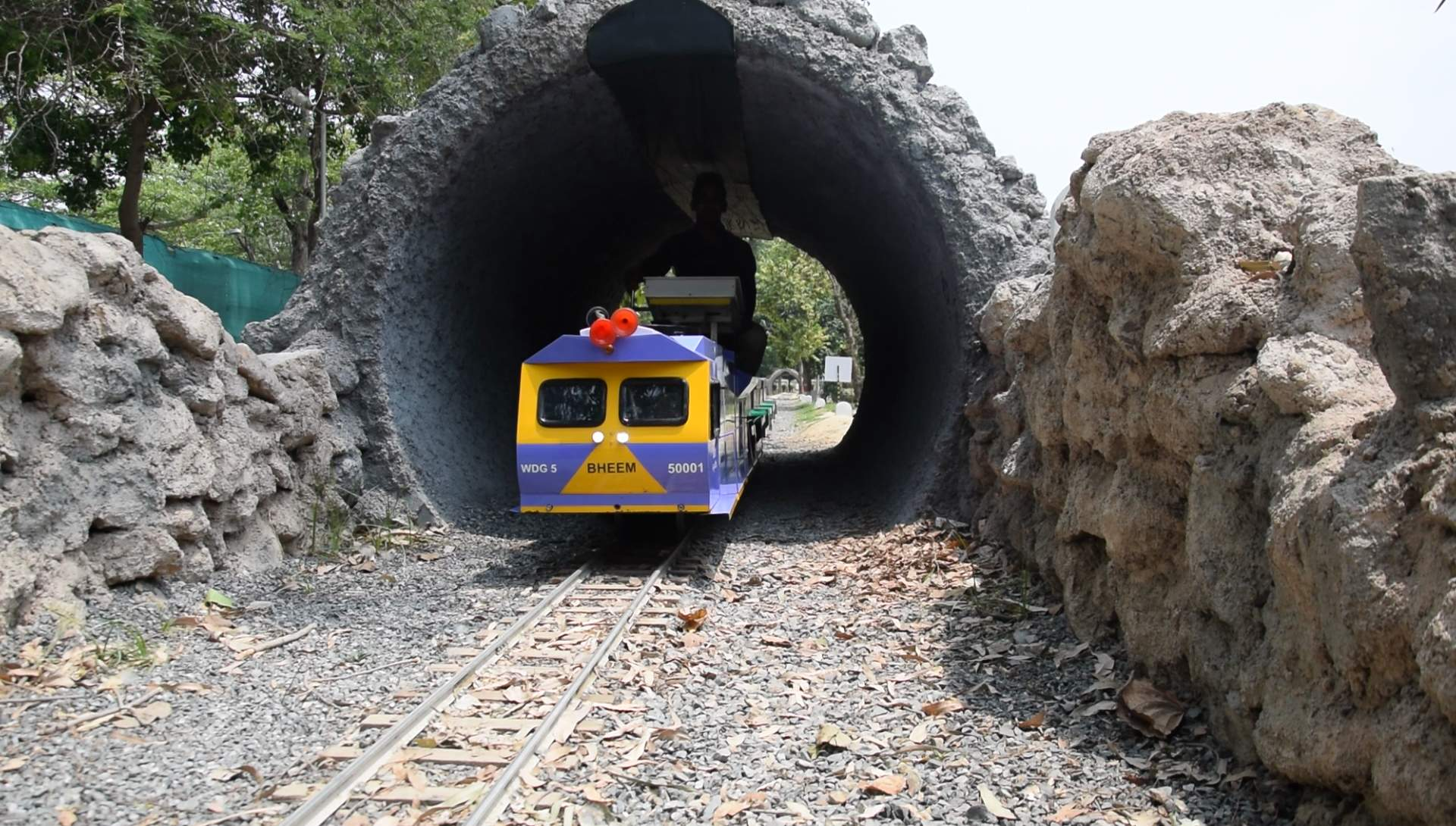 1:8 Toy train of NRM